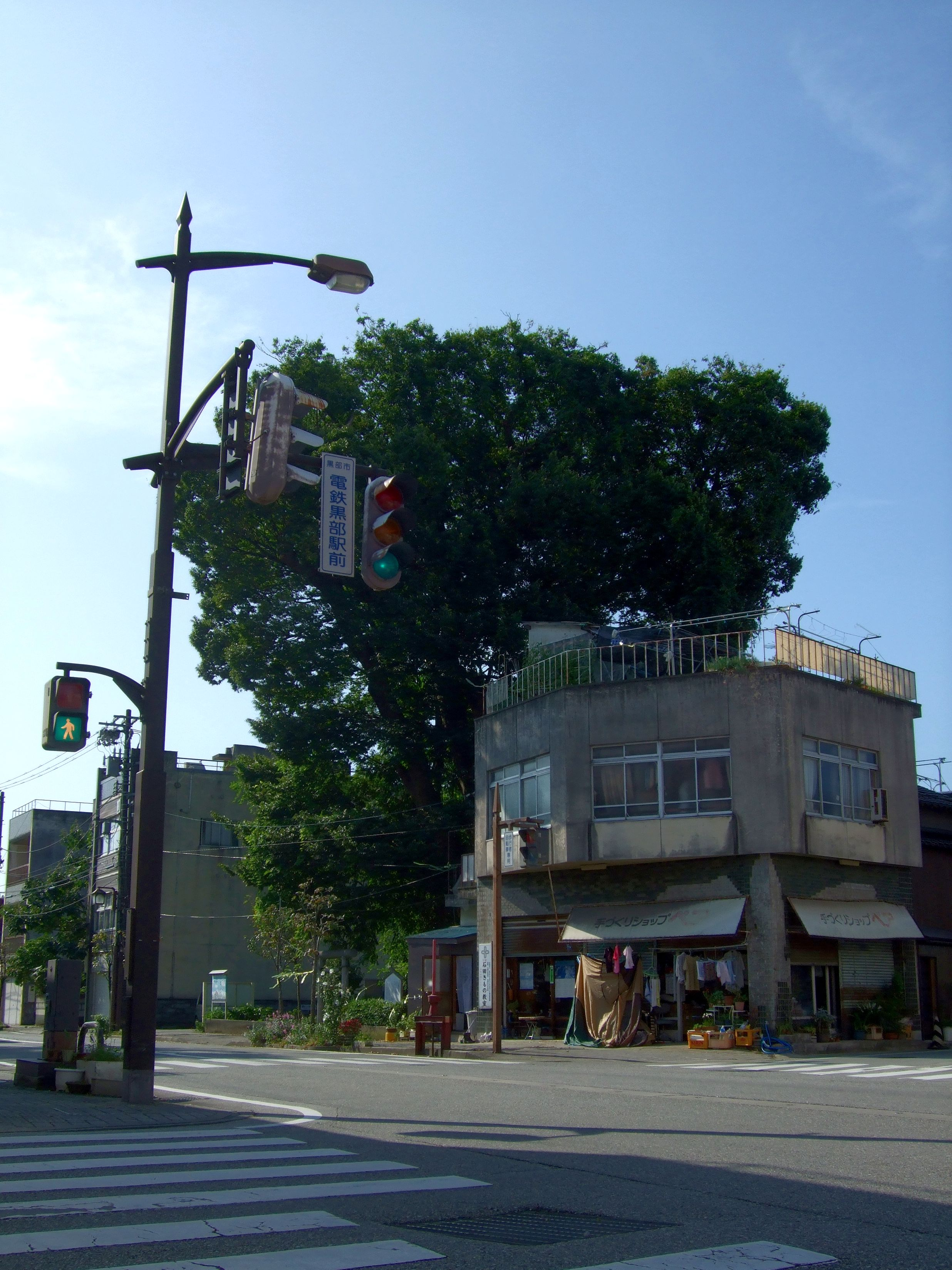 Mishima-no-Ookeyaki(Zelkova serrata) in Mikkaichi, Kurobe, Toyama, Japan.